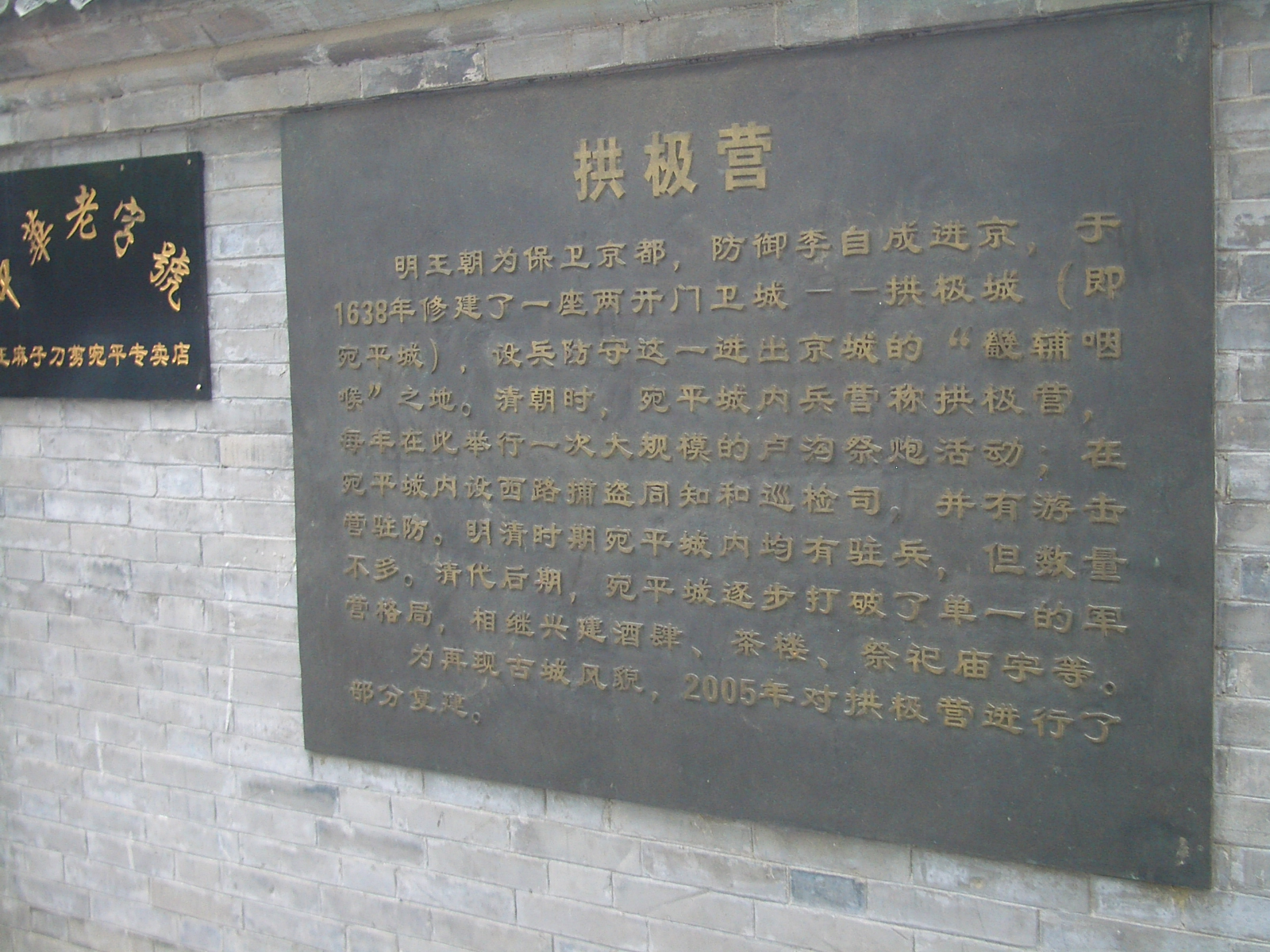 In the main street inside the walls of Wanping Fortress, Beijing. The area houses tourist-oriented shops and galleries